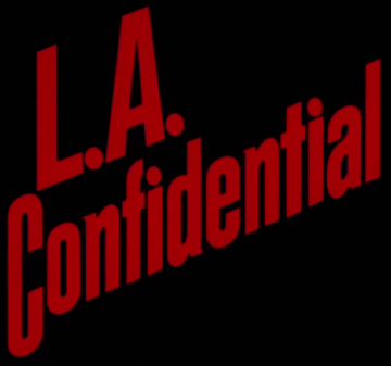 Logo of the film L.A. Confidential (1997)